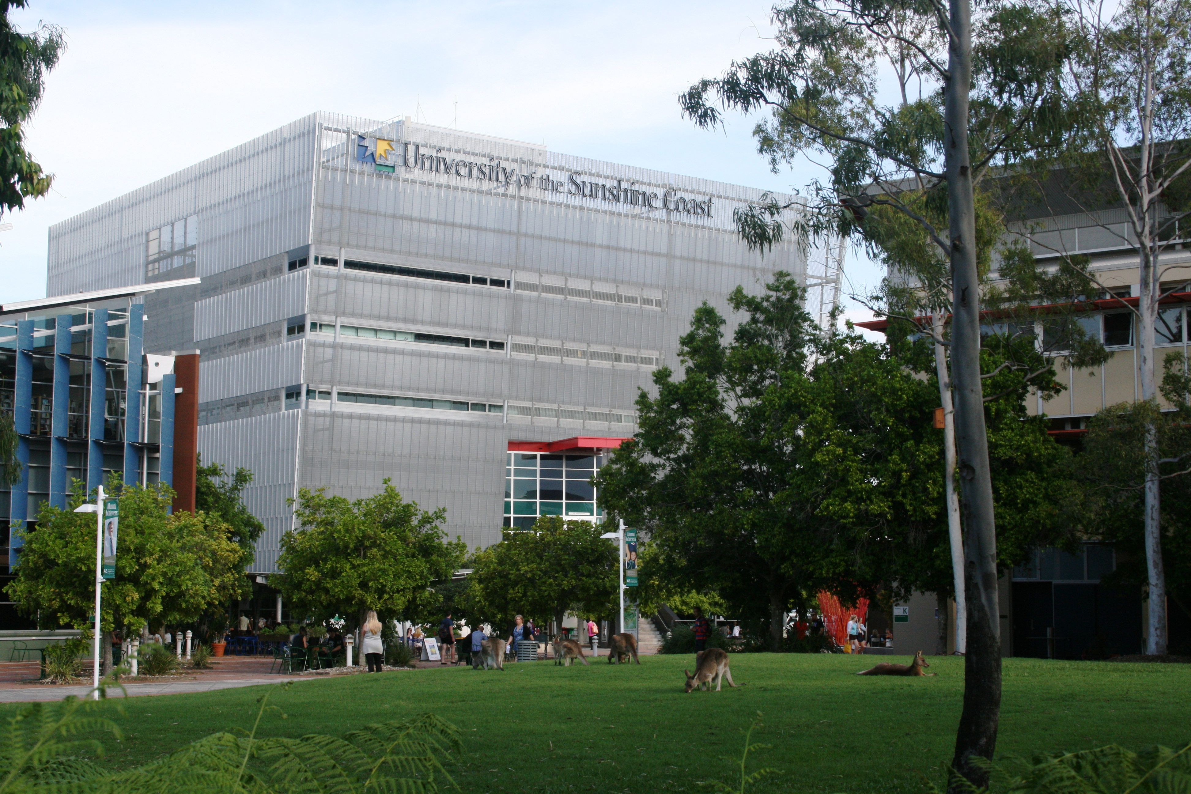 The lush green USC Campus with native Kangaroos in residence.